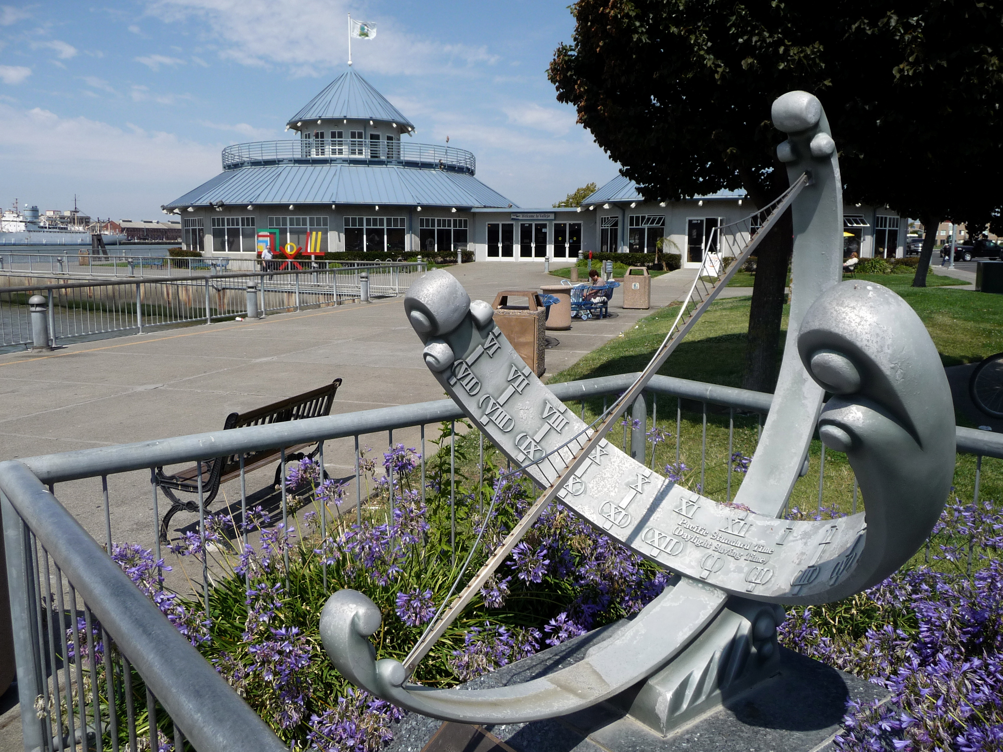 Sundial at the Vallejo Ferry Terminal.